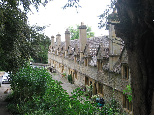 East Coker Almshouses The Almshouses were built by Archdeacon Helyar. Although started in 1640, they were not completed until 1660. They were founded for eleven women and one man and are still in use as almshouses.